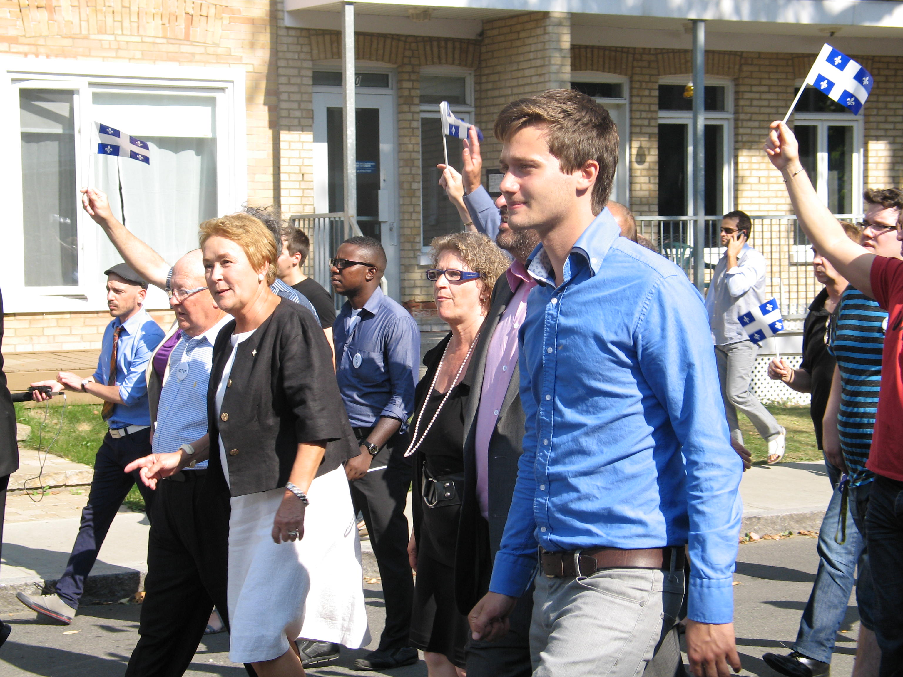 Léo Bureau-Blouin takes part in a political event in Quebec City with Pauline Marois during the 2012 General election campaign in Quebec.